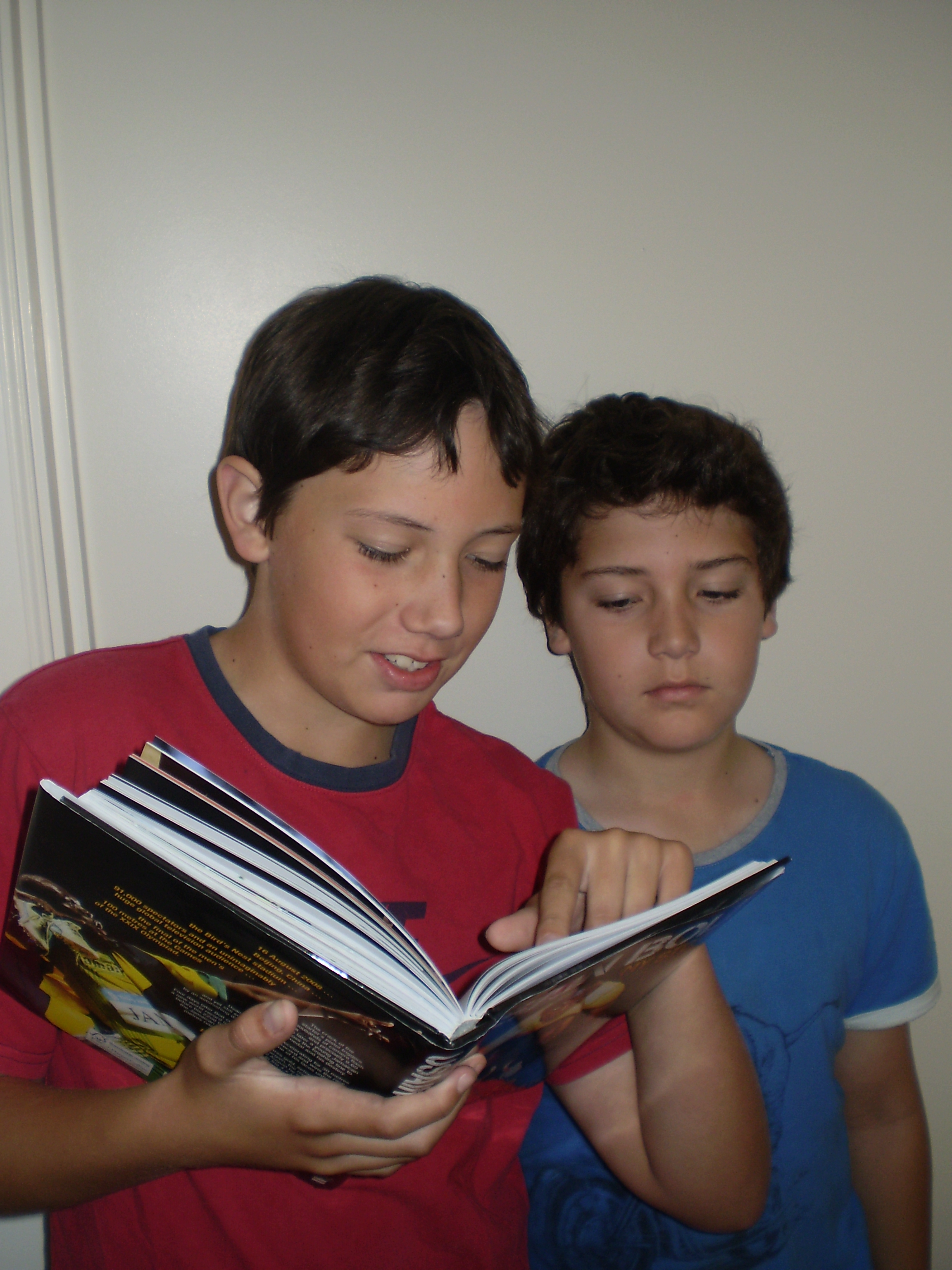 Photo of students' reading